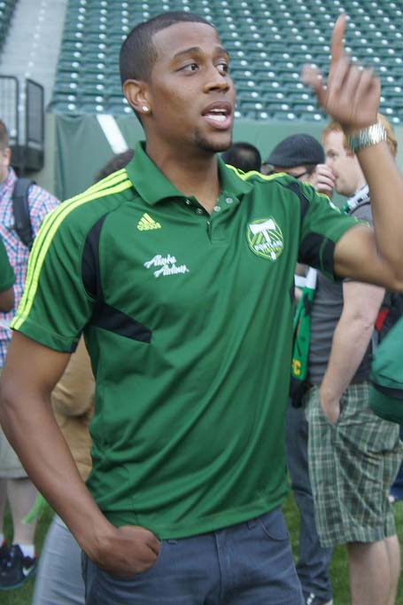 Jeremy Hall, formerly of the Portland Timbers